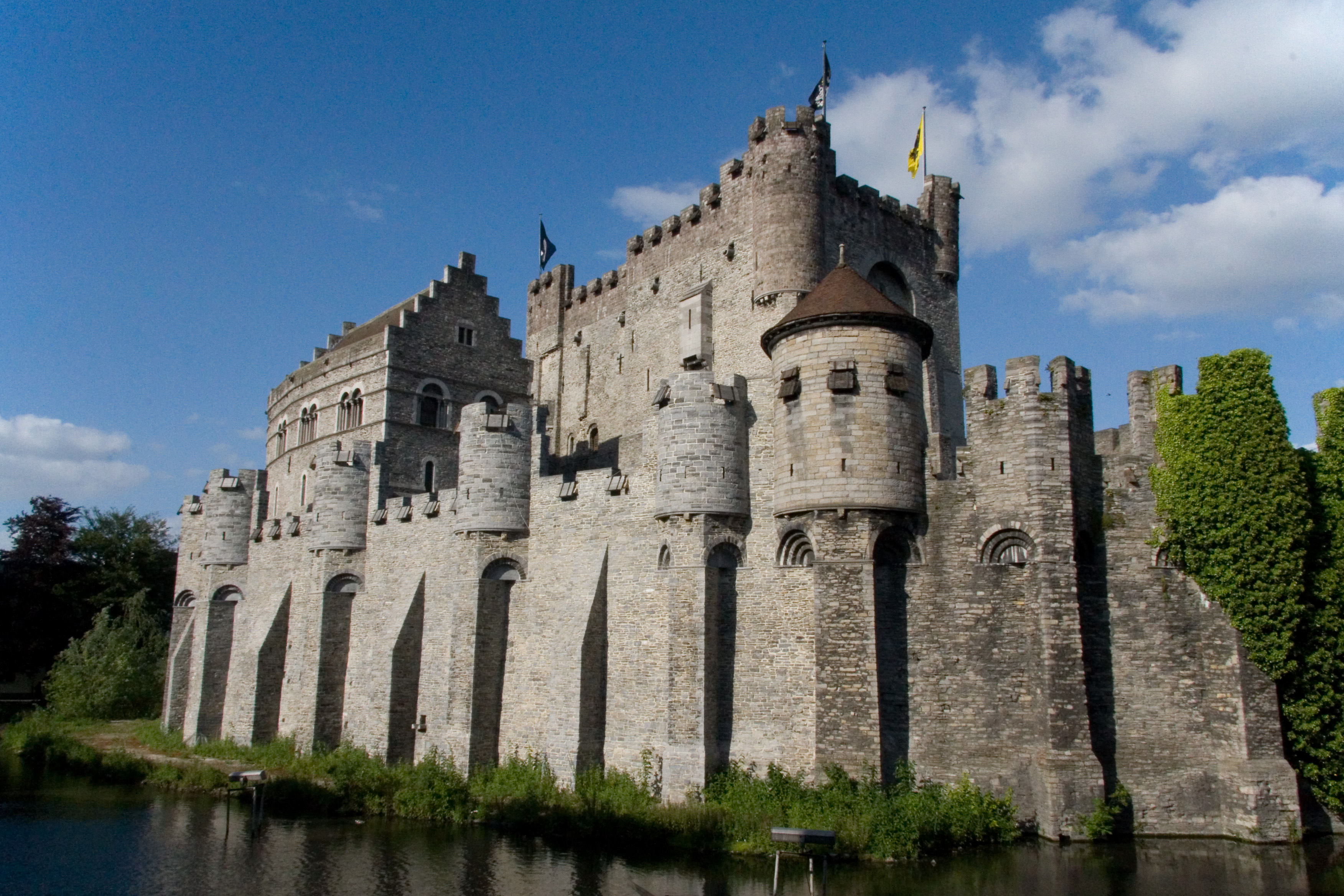 Gravensteen (Gent)